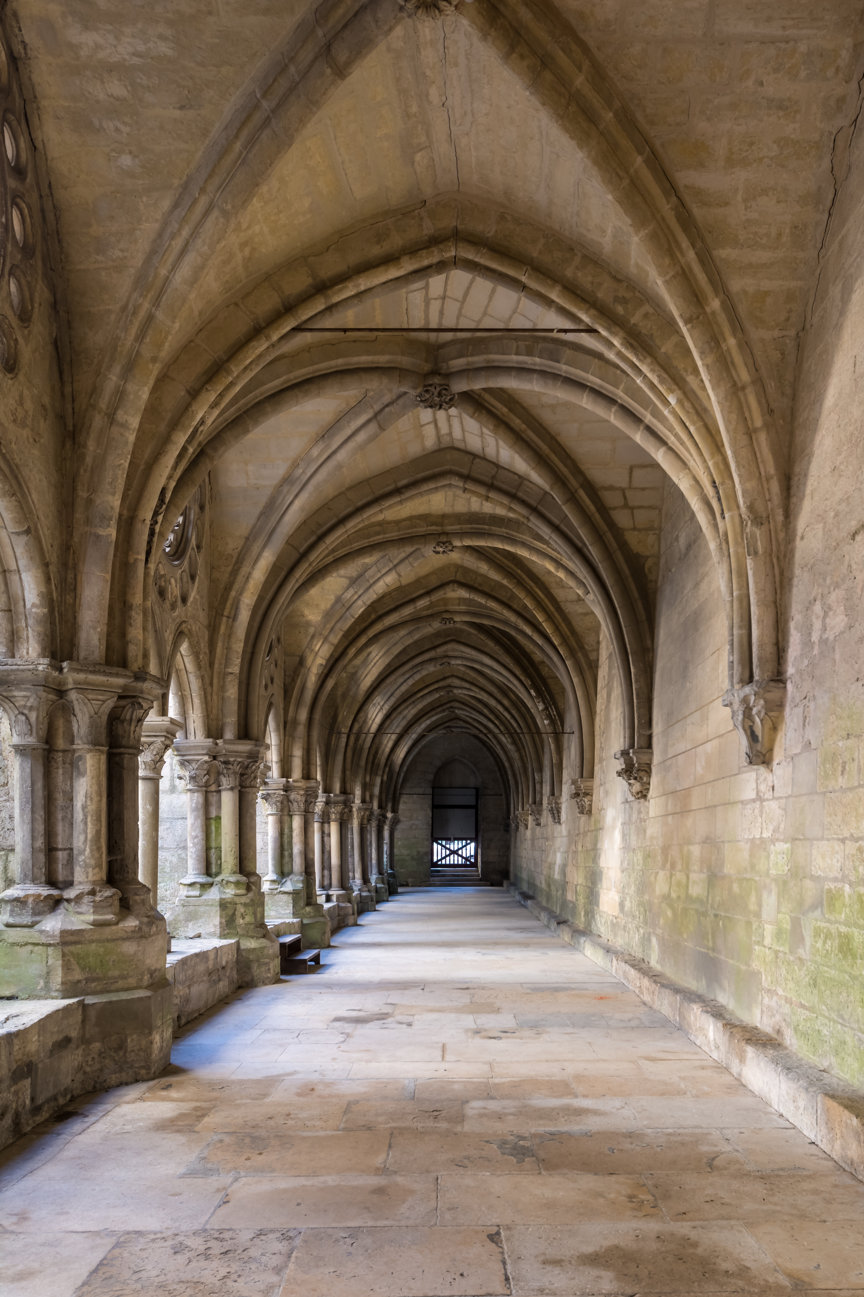 Cloister of Laon Cathedral Notre-Dame, Picardy, France It is indexed in the Base Mérimée, a database of architectural heritage maintained by the French Ministry of Culture, under the references PA00115710 and cathédrale .